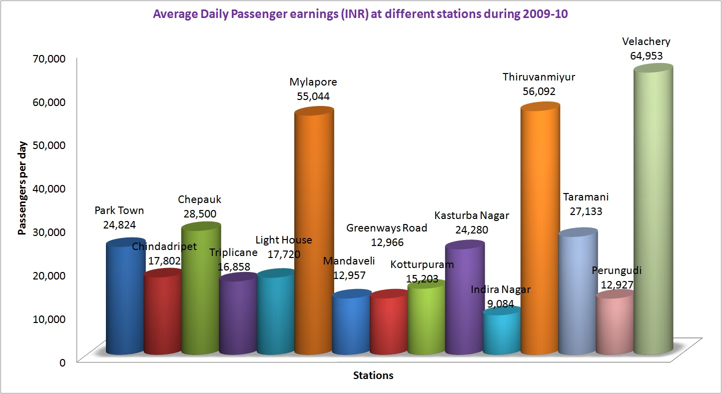 The pie chart shows the average passenger earnings (INR) at different stations in MRTS railway network of Chennai, India. The station wise split up is depicted in the pie chart. The statistics are during the period is 2009-10. Source: Southern Railway data accessed through "The Hindu" newspaper, Chennai. Data converted into pie chart using Microsoft Excel software and saved as jpg image using paint.